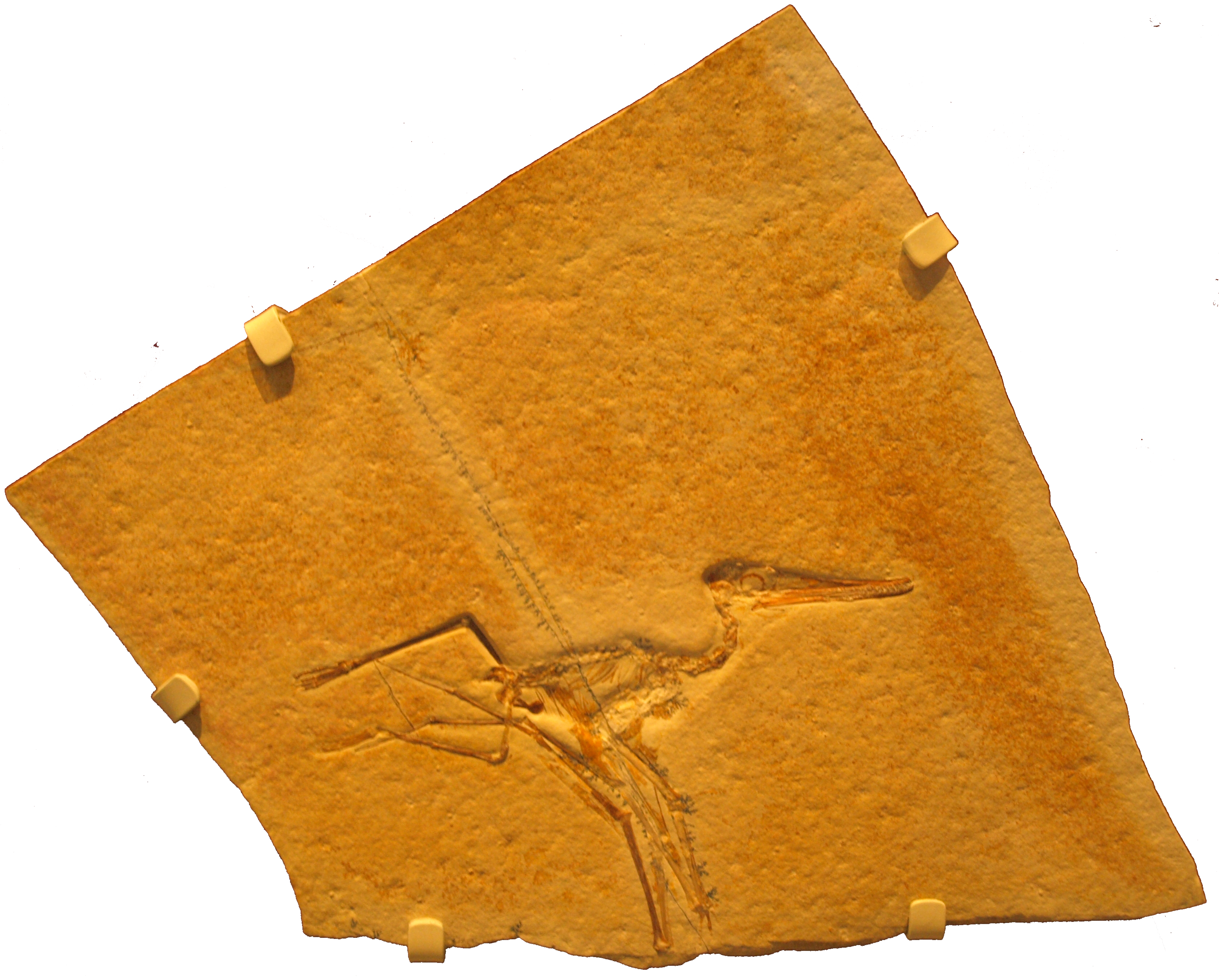 Ctenochasma elegans (formerly Pterodactylus elegans) on display at the Royal Ontario Museum, Toronto.